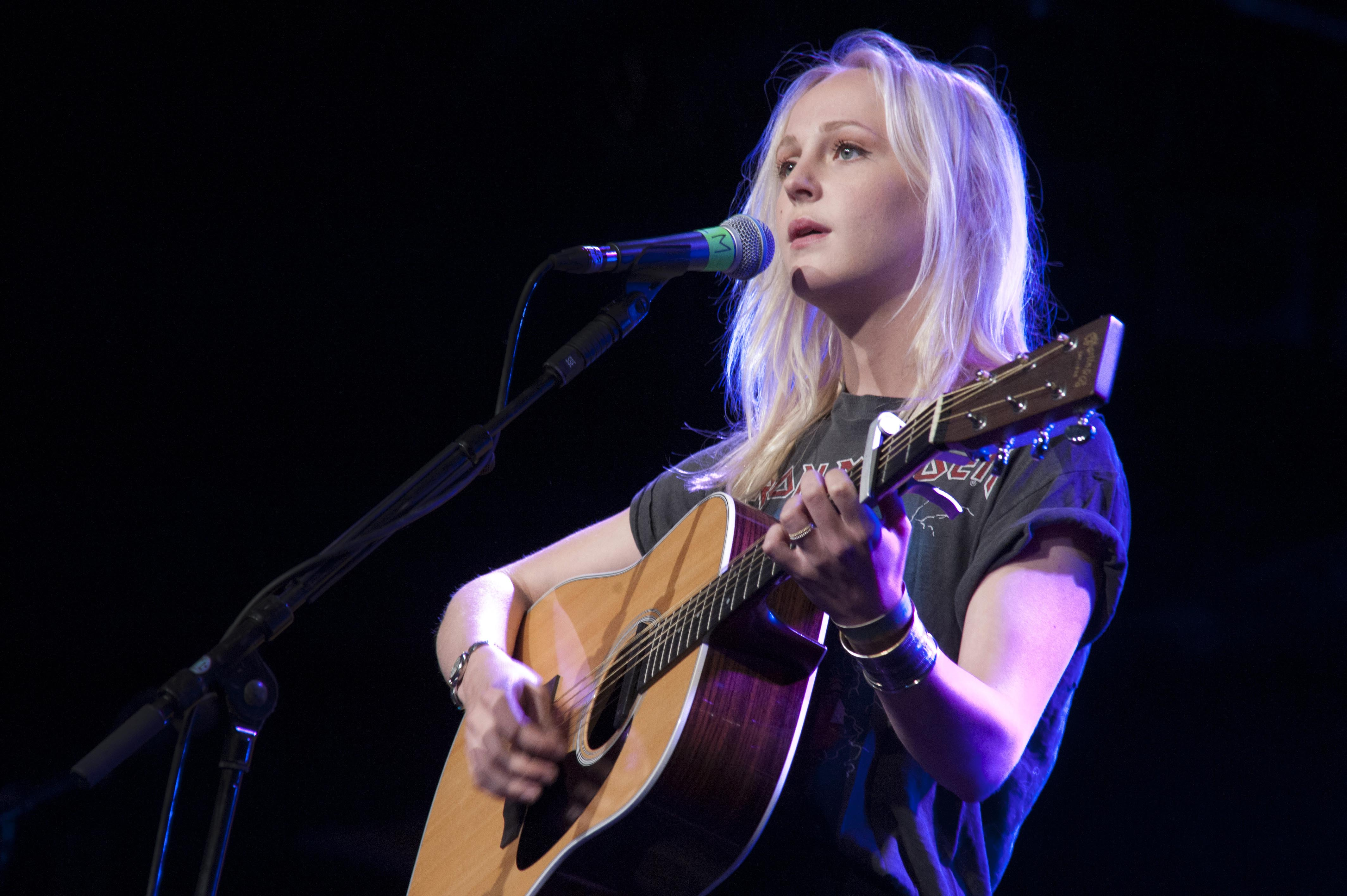 Musicians Cambridge Festivals 2001-2014